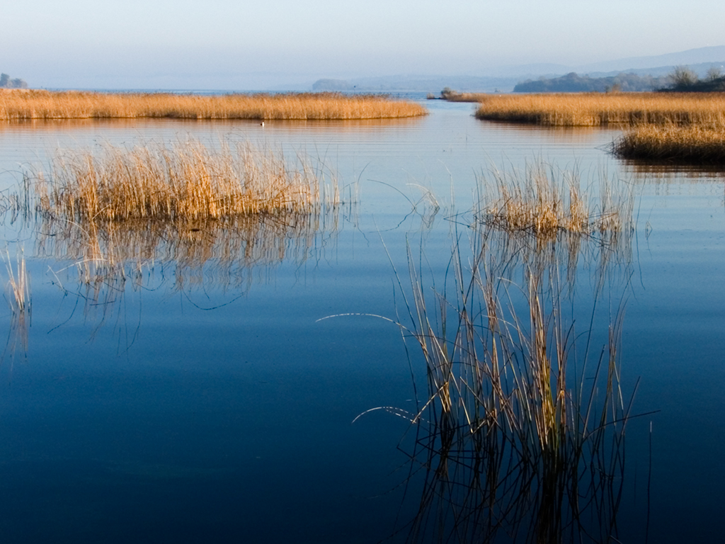 November reeds